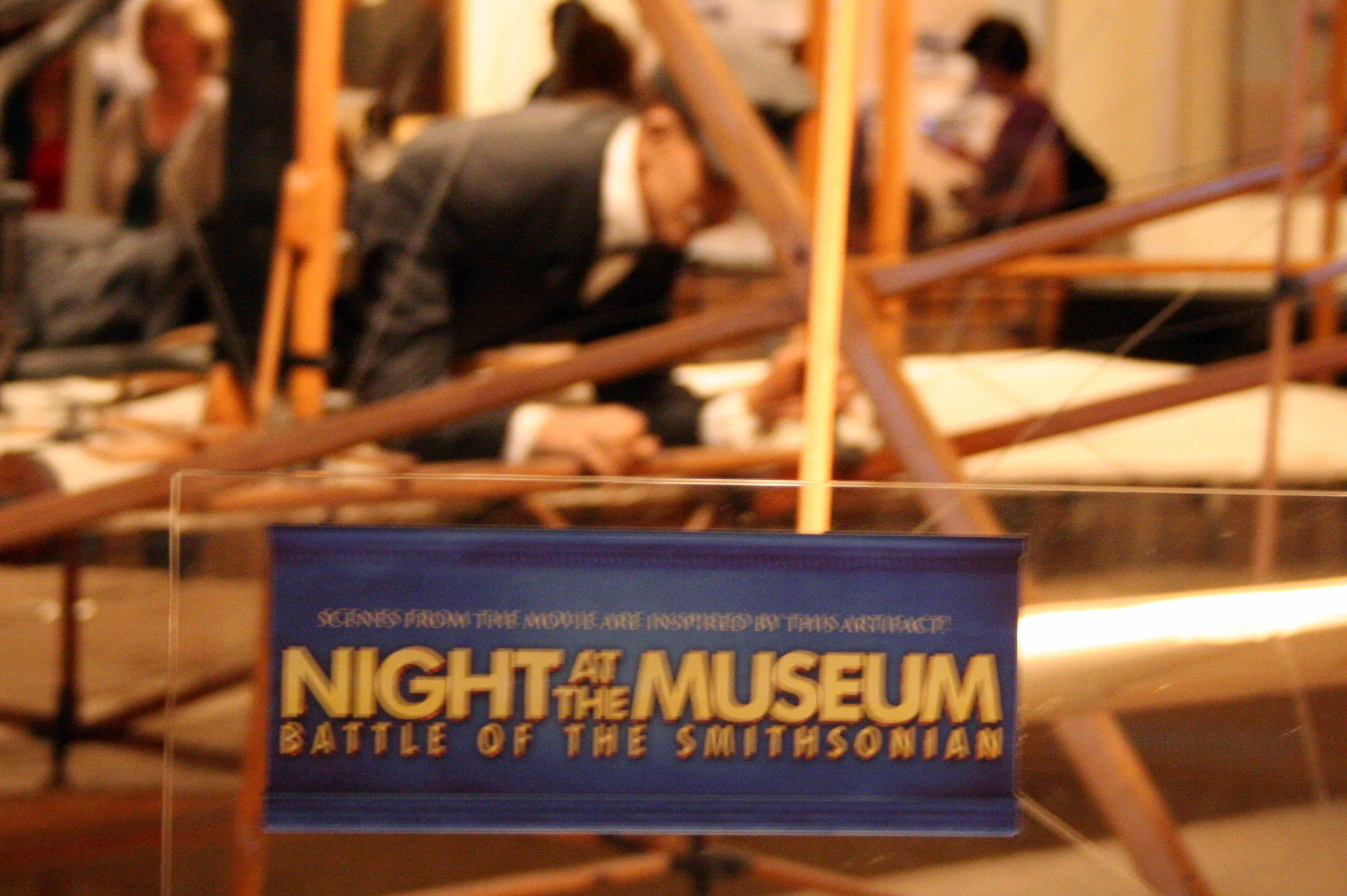 Label at the Air and Space Museum identifying artifacts that were featured in the movie Night at the Museum: Battle of the Smithsonian